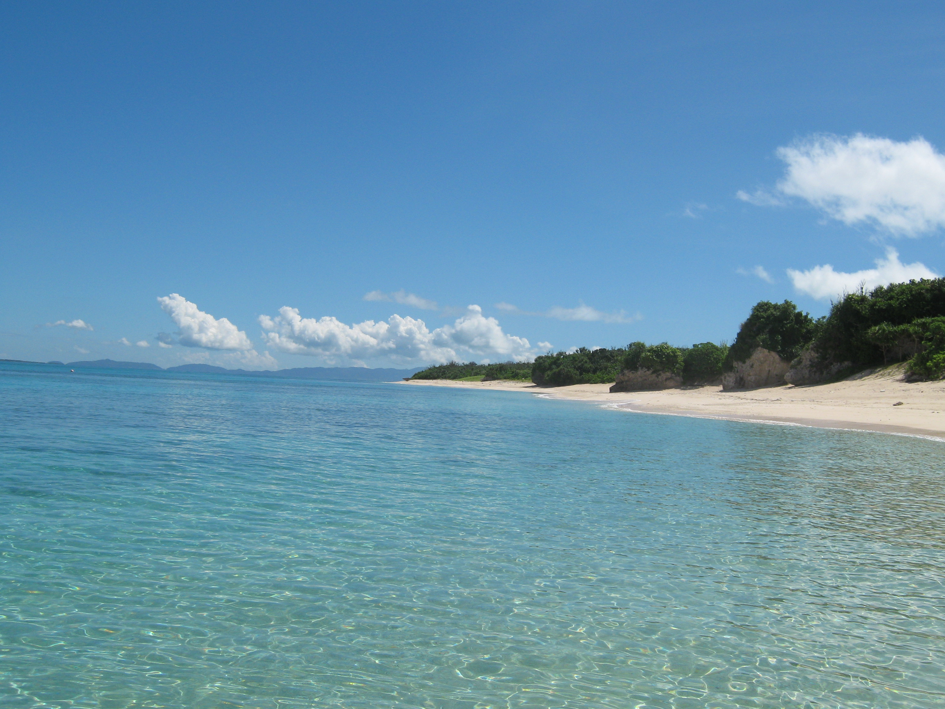 yaeyama okinawa kuroshima panari